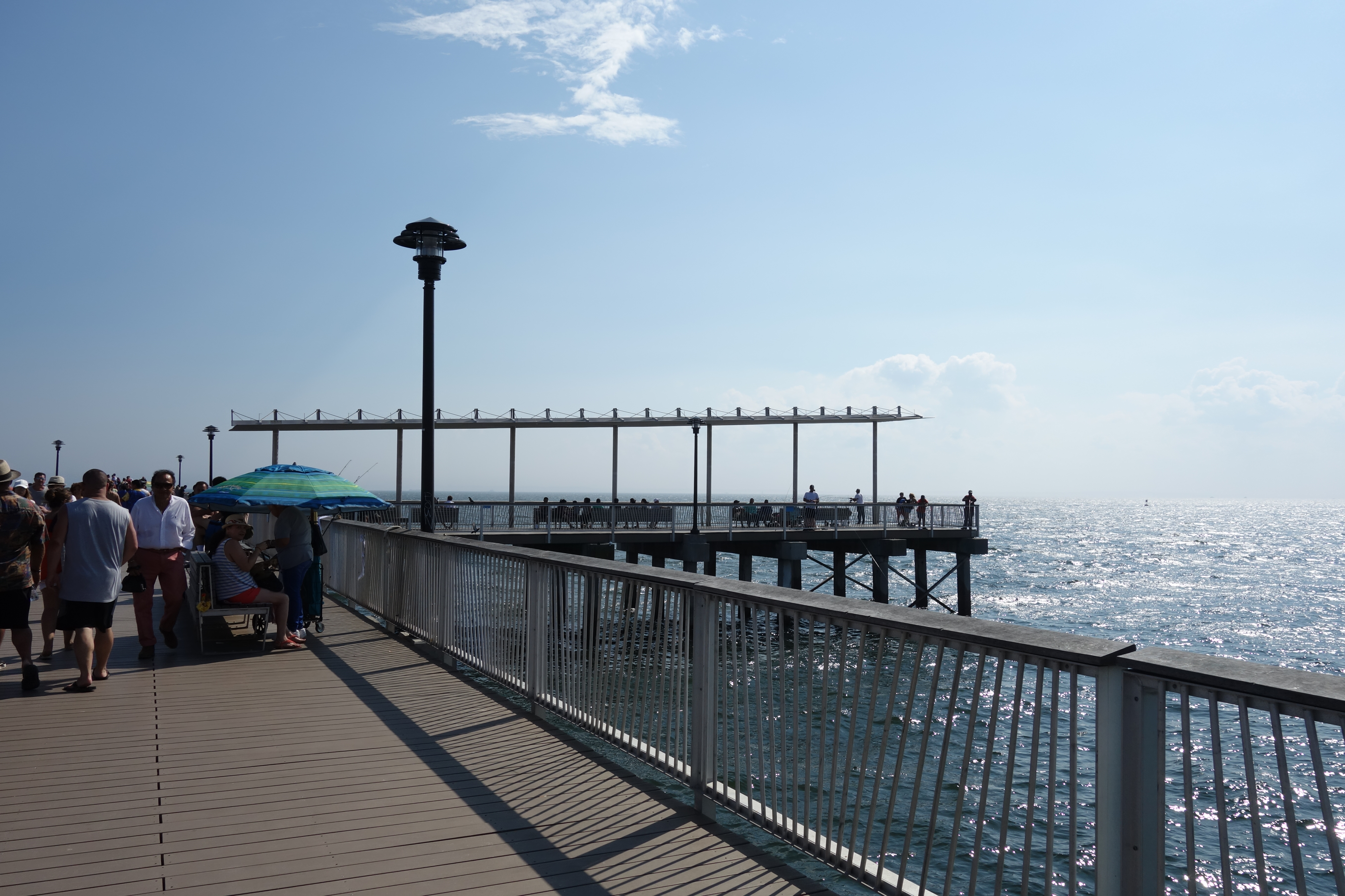 Walking the Steeplechase Pier of Coney Island, south of West 17th Street in Coney Island, Brooklyn. The pier was completely rebuilt after Hurricane Sandy, reopening in October 2013, and looks very modern. Pictured is the western appendage of the cross-shaped pier.